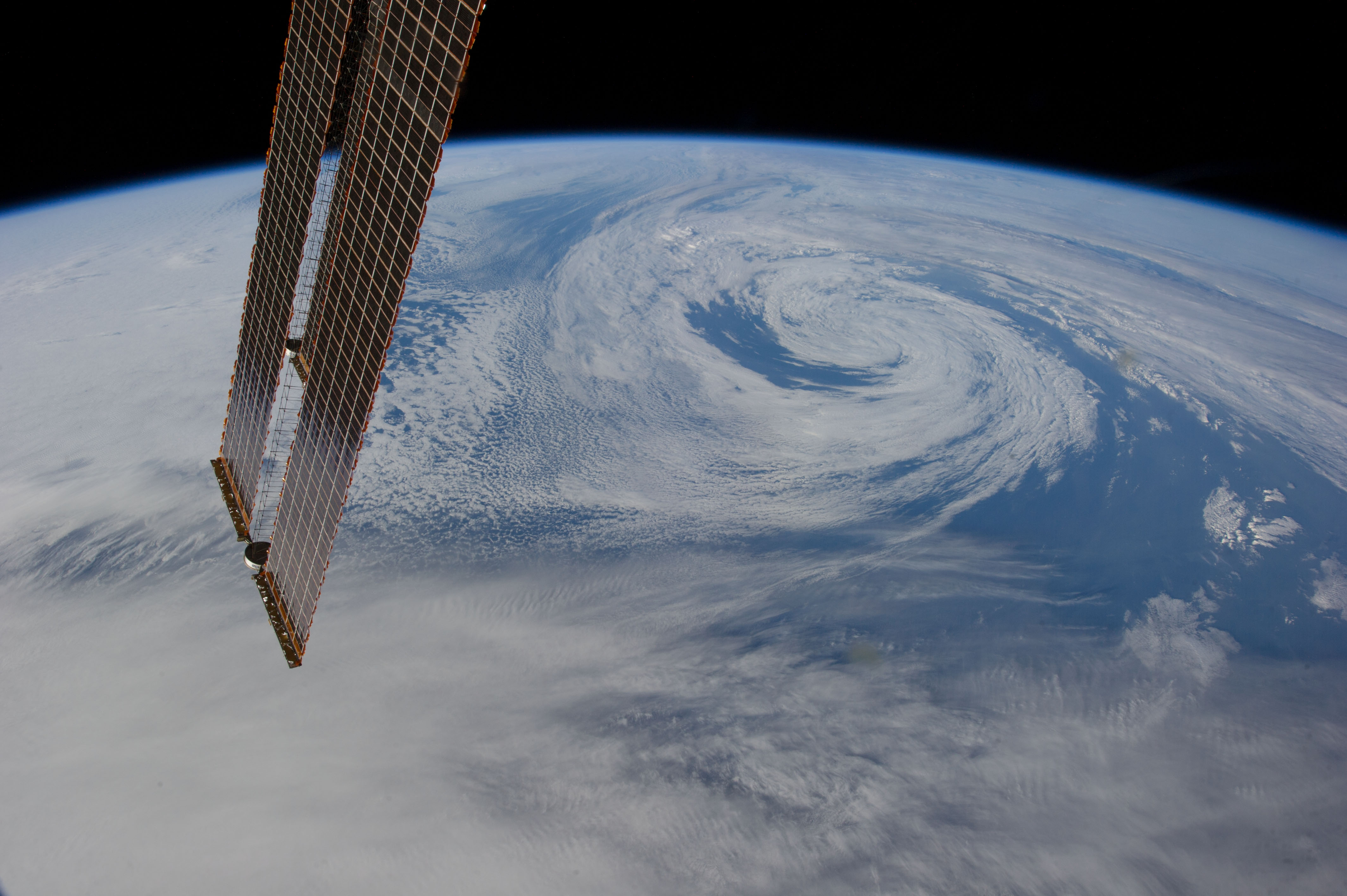 This view of a northern hemisphere mid-Atlantic low pressure system was photographed by one of the Expedition 34 crew members aboard the International Space Station flying approximately 240 miles above Earth on Feb. 23, 2013. The nadir of the space station when the image was taken was 49.9 degrees north latitude and 29.6 degrees west longitude.